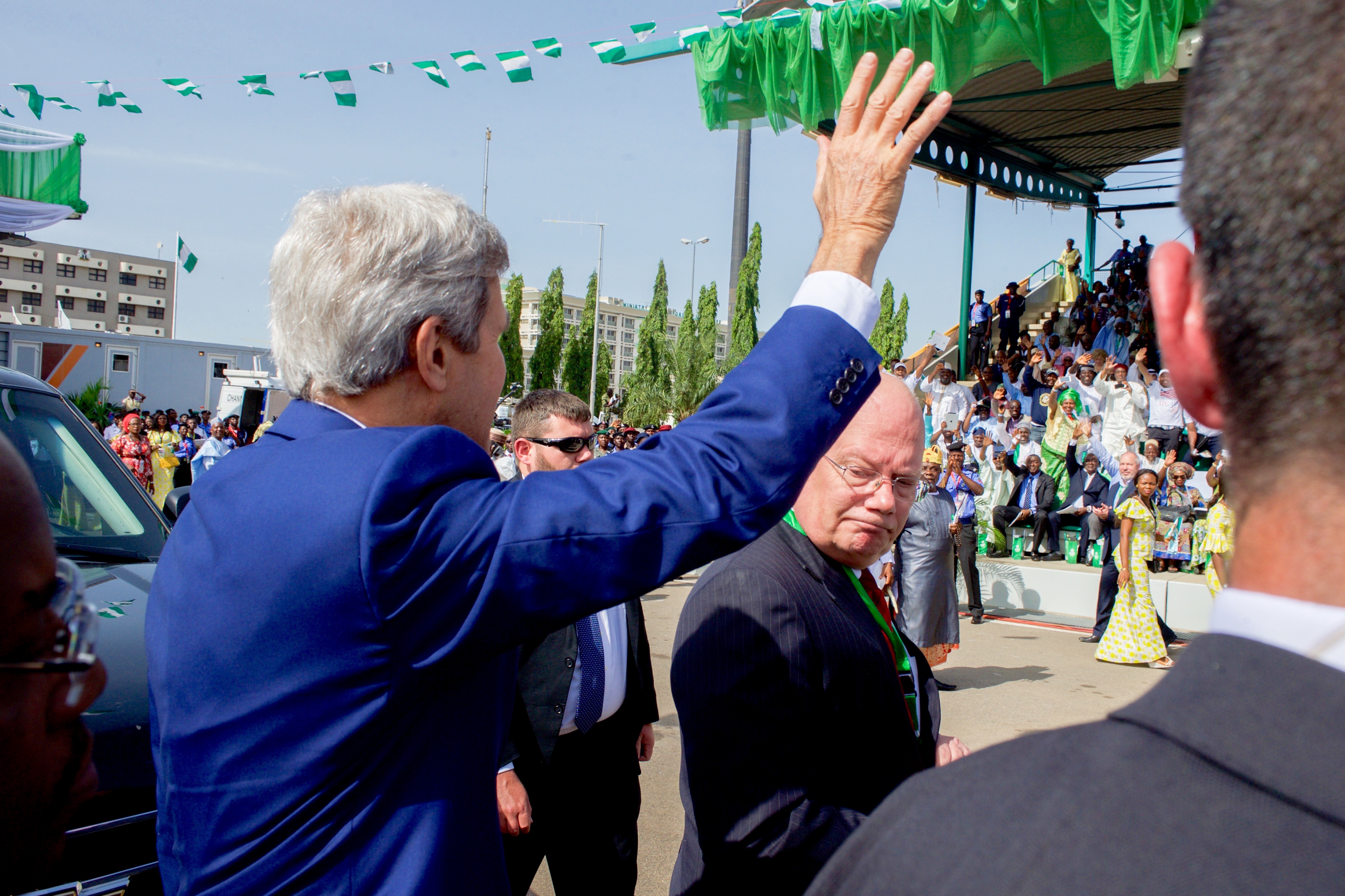 U.S. Secretary of State John Kerry return waves from crowd members as he arrives at Eagle Square in Abuja, Nigeria, leading a delegation representing President Obama while President-elect Muhammadu Buhari replaced Nigerian President Goodluck Jonathan during an inauguration ceremony on May 29, 2015. [State Department photo/ Public Domain]